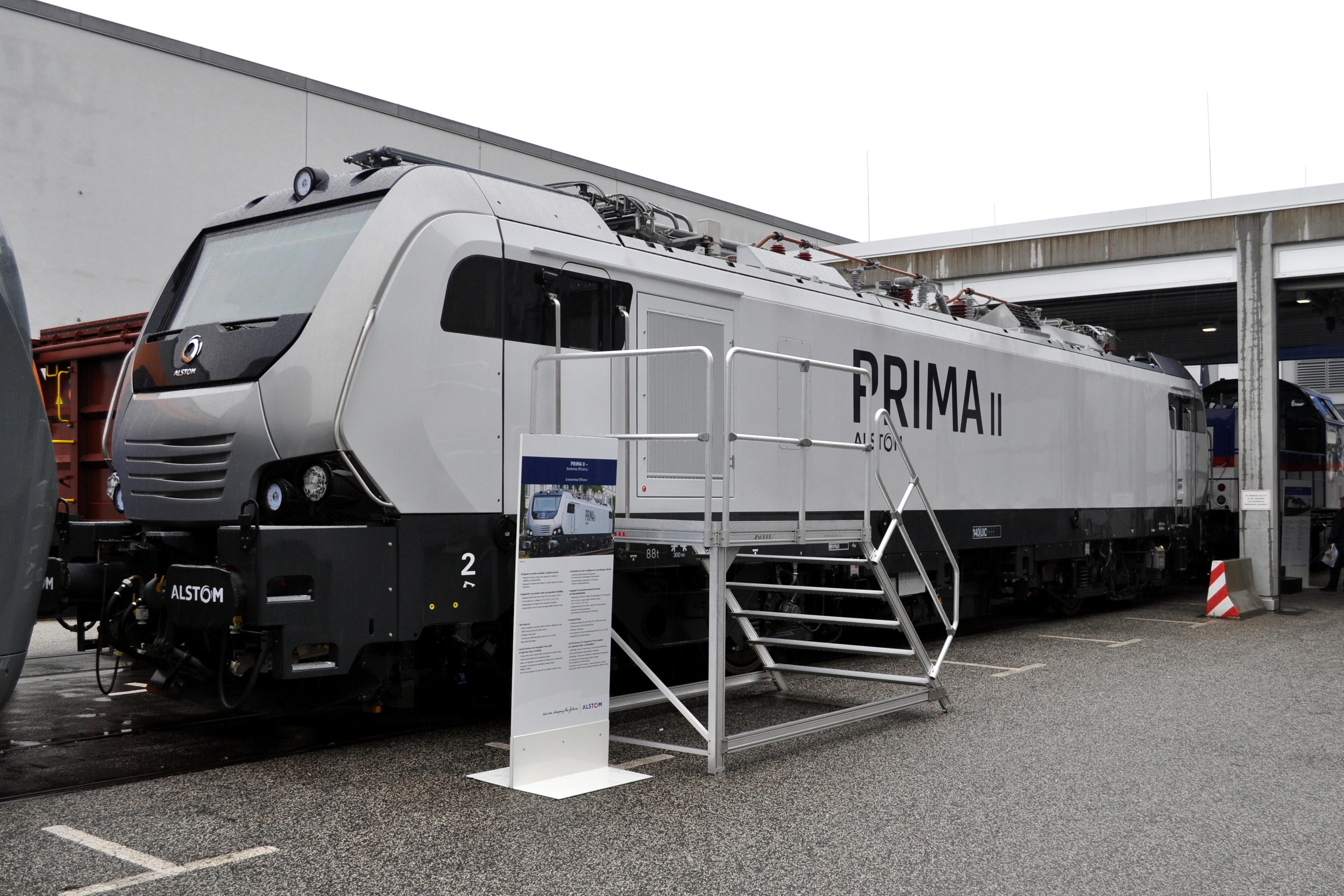 Alstom Prima II at the InnoTrans 2010 in Berlin